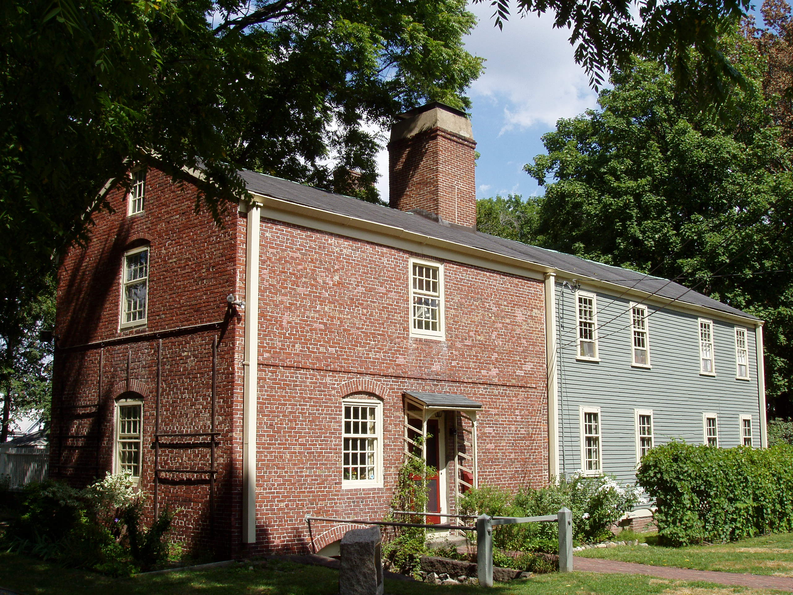 Isaac Royall House, Medford, Massachusetts - Slave quarters. Photograph taken by me, September 2005.